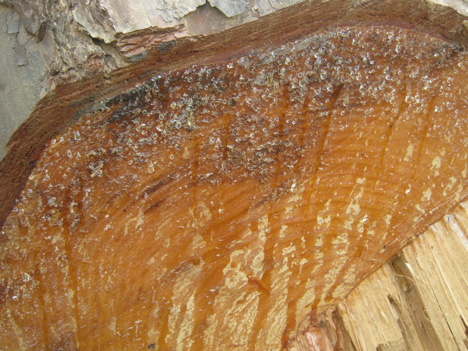 Resin of pine tree.